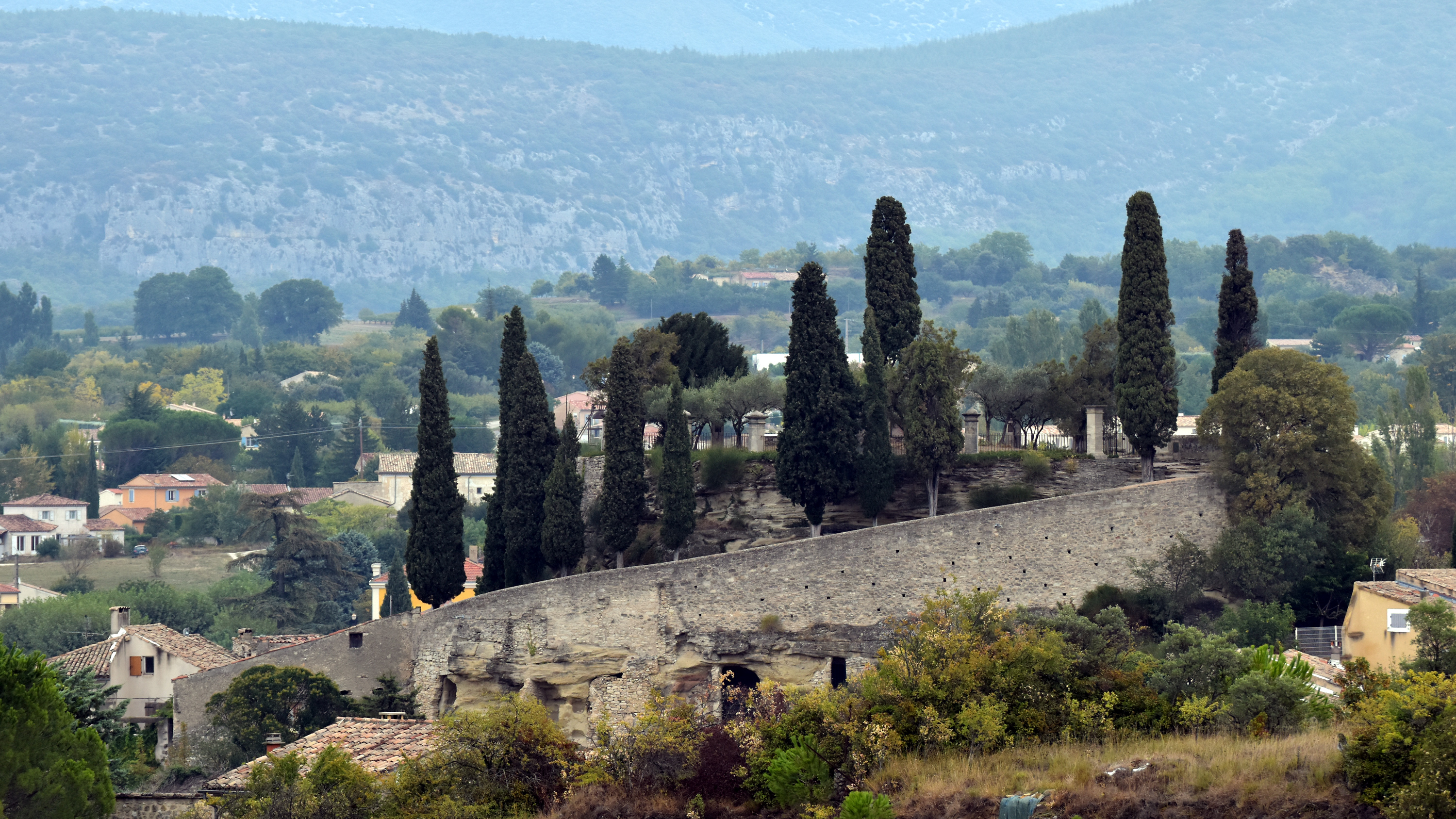 Malaucène, Calvaire